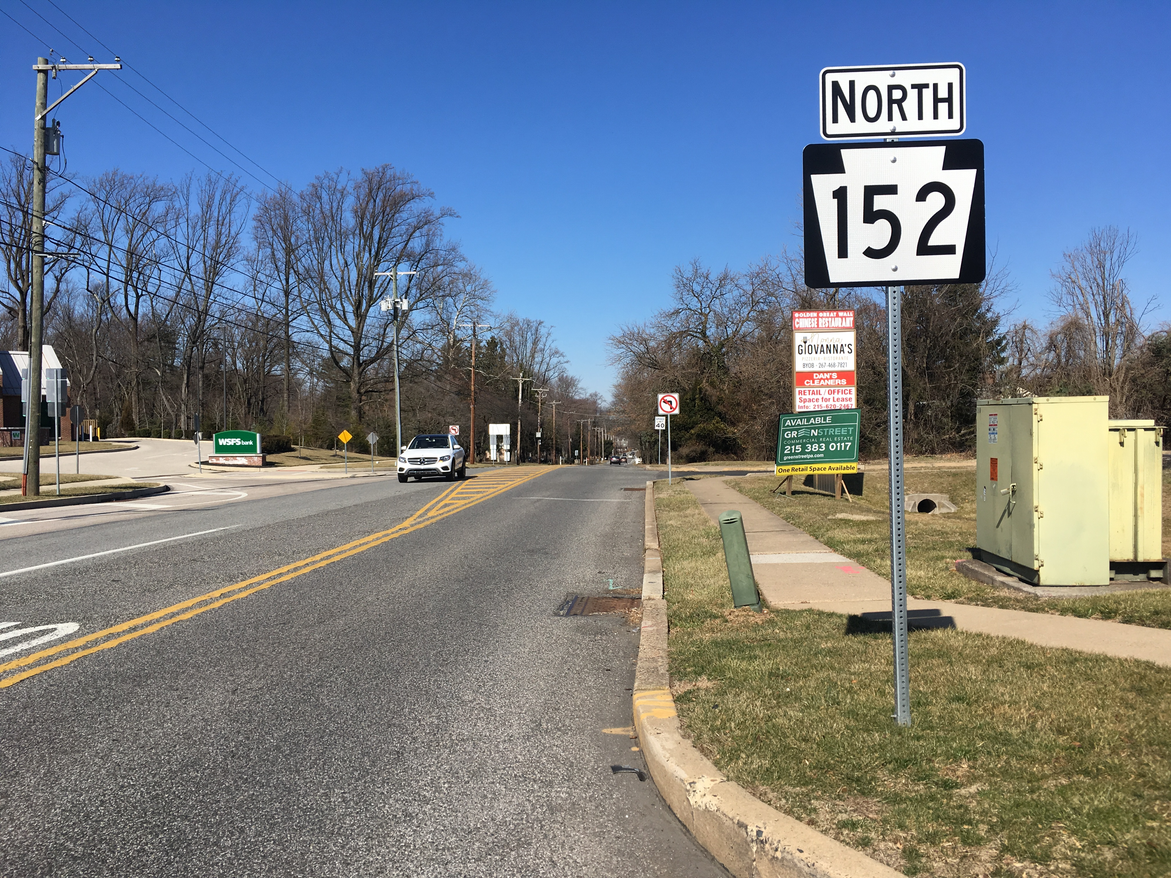 Northbound Pennsylvania Route 152 (Limekiln Pike) past the intersection with Pennsylvania Route 63 (Welsh Road) in Maple Glen, Pennsylvania